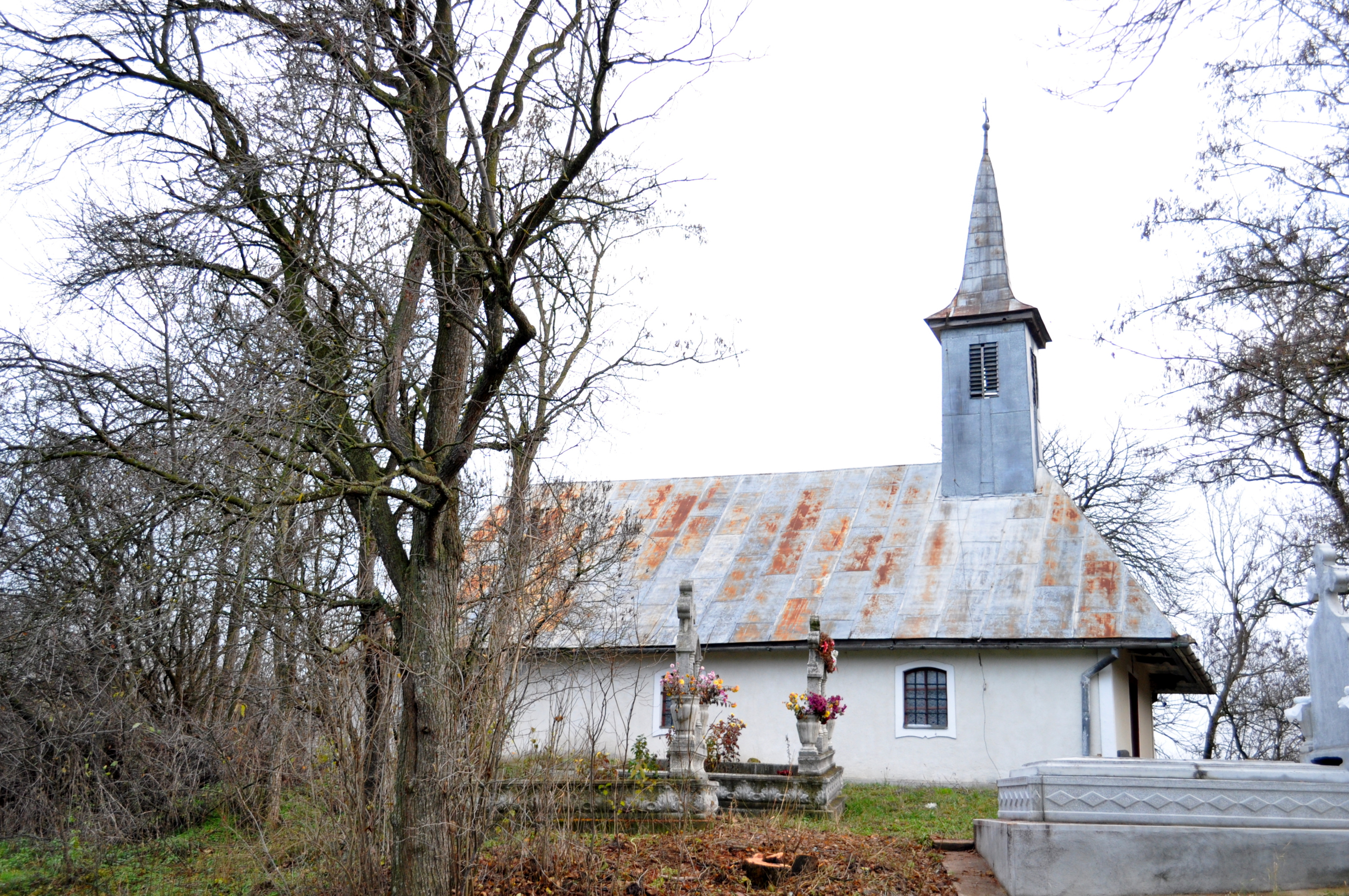 Wooden church in Bărăi, Cluj county, Romania